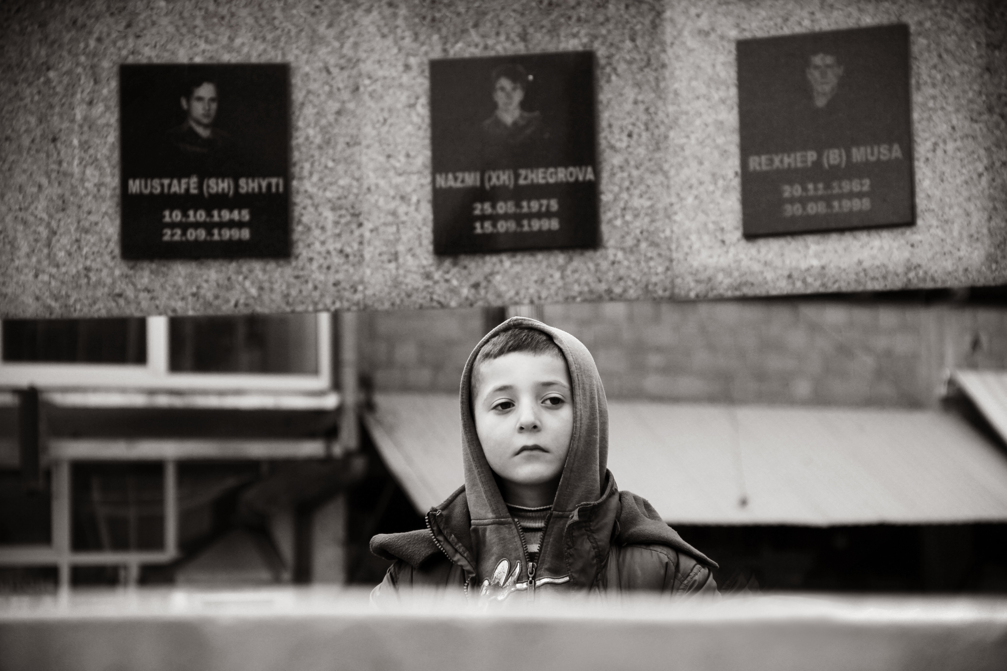 Vushtrri